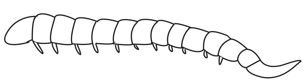 Hand drawn sketch of the Ibaliidae larva.